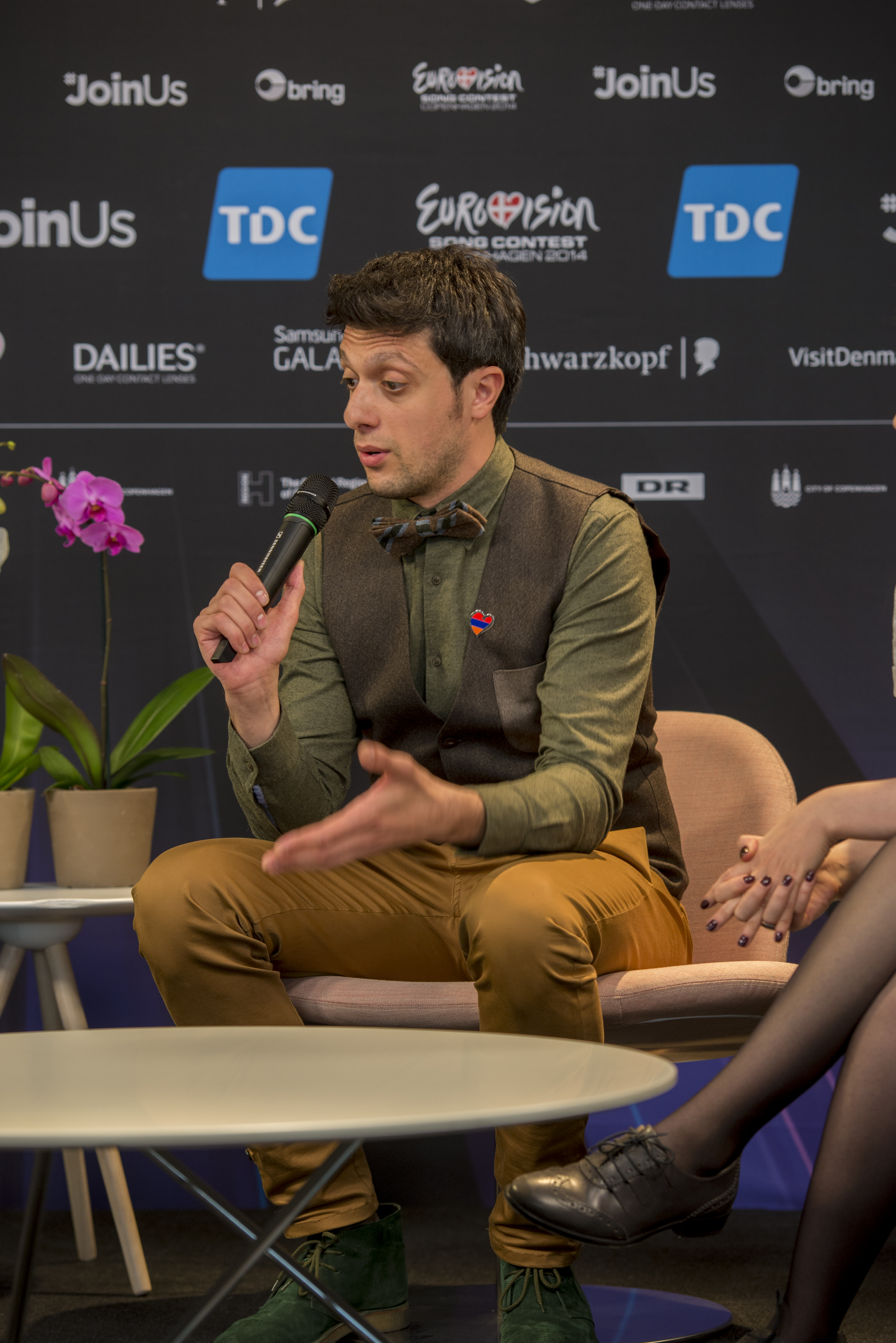 Aram Mp3 at a Meet & Greet during the Eurovision Song Contest 2014 Copenhagen. (Help translate this text)